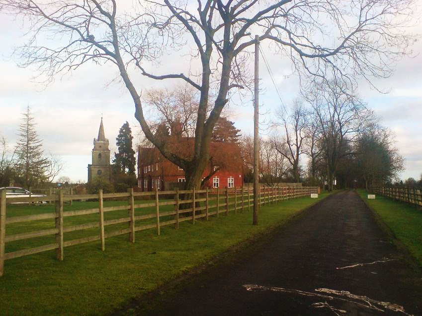 A photo of Honiley church and the drive to the manor house